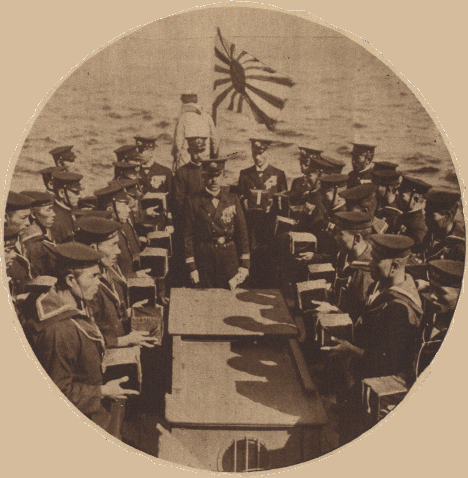 Japanese sailors bring ashore boxes containing the cremated remains of the first Japanese victims of the war, the crew of the Japanese destroyer Sakaki, sunk on 11 June 1917 Austro-Hungarian Navy U-boat U-27 hit Sakaki off Crete killing 68 of her 92 crewmen.